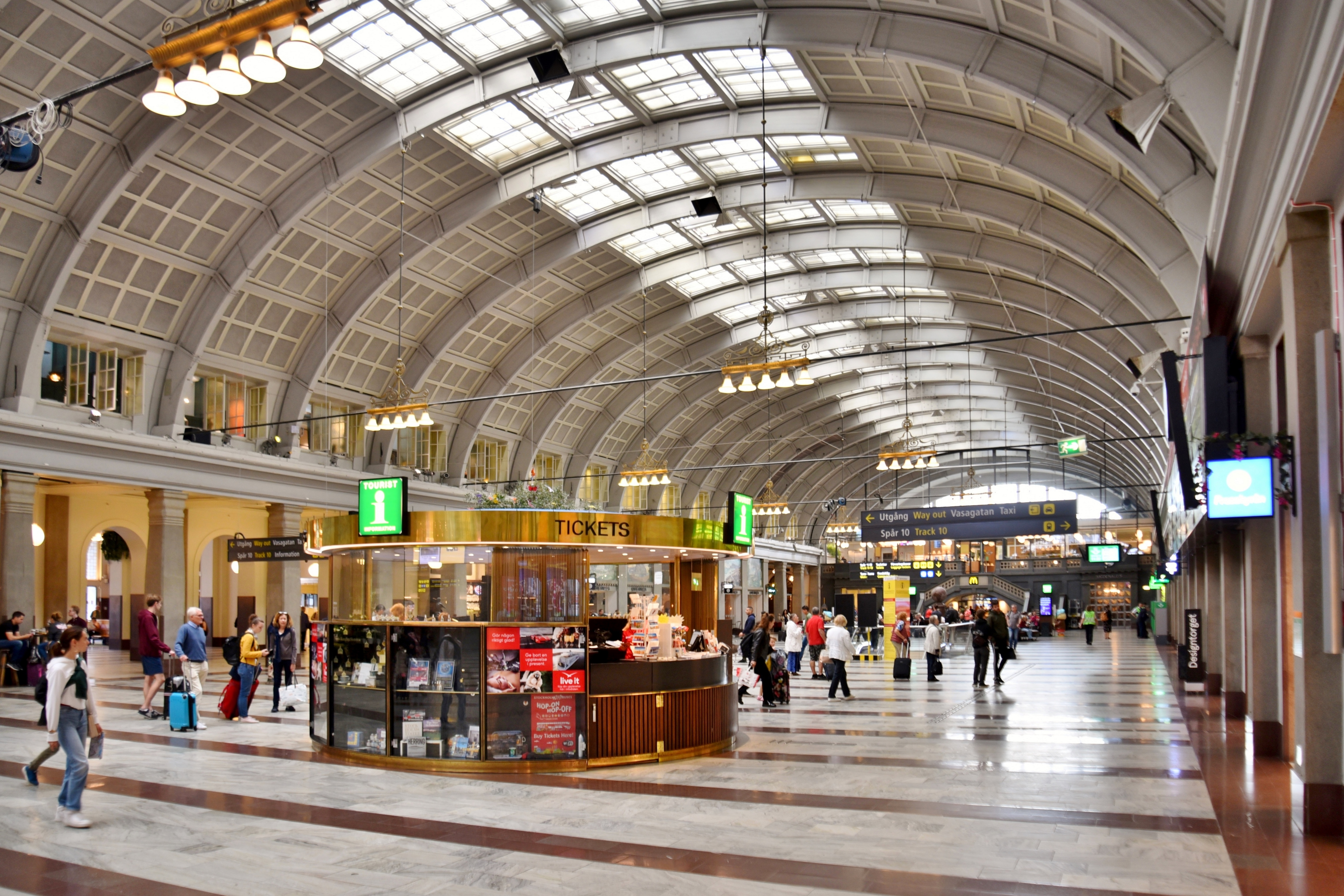 Interior view of the main hall at Stockholm Central Station